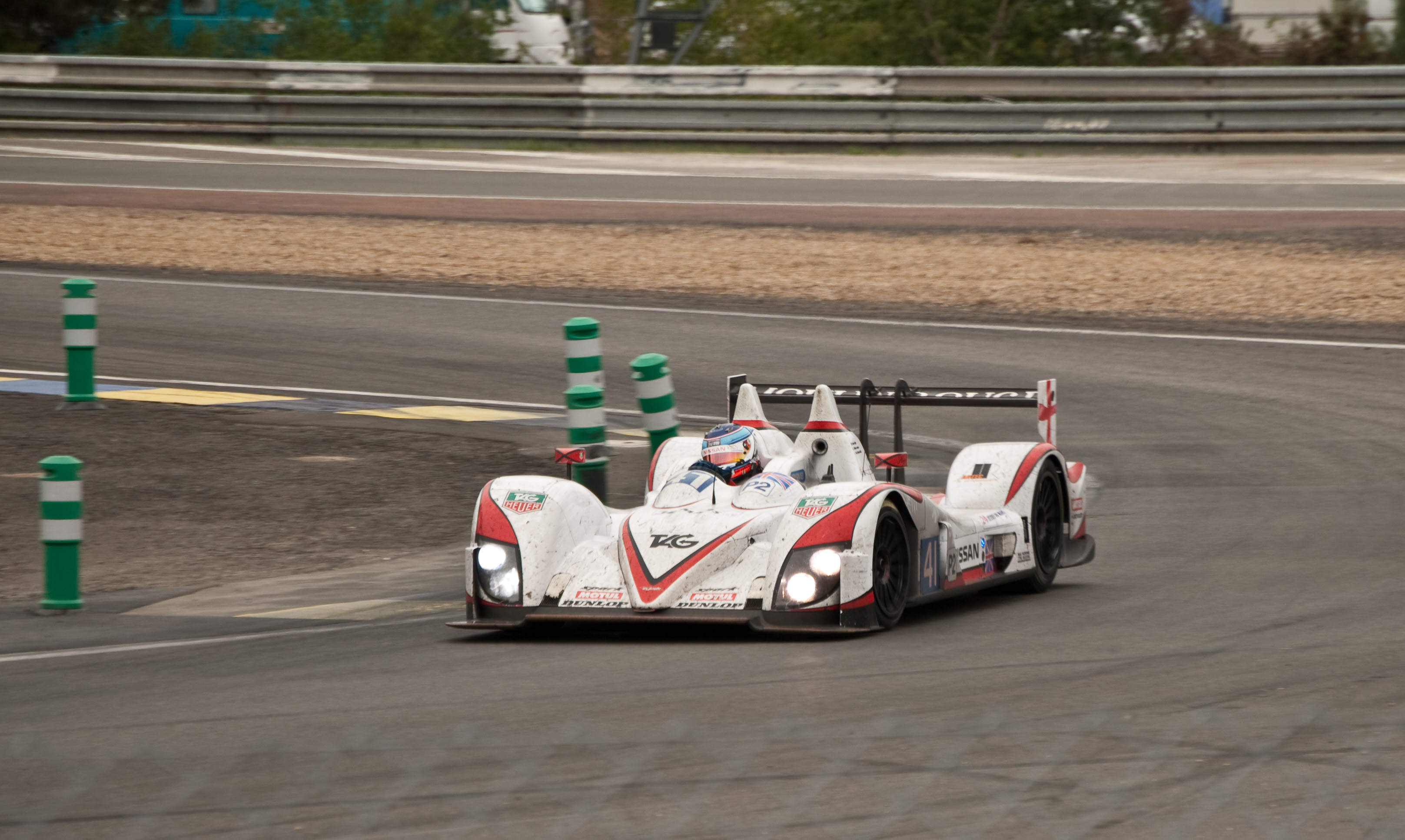 Zytek Z11SN Nissan from the team Greaves Motorsport at the 24 hour race in Le Mans 2011, finished 1st in class (LMP2) and 8th overall after 326 laps